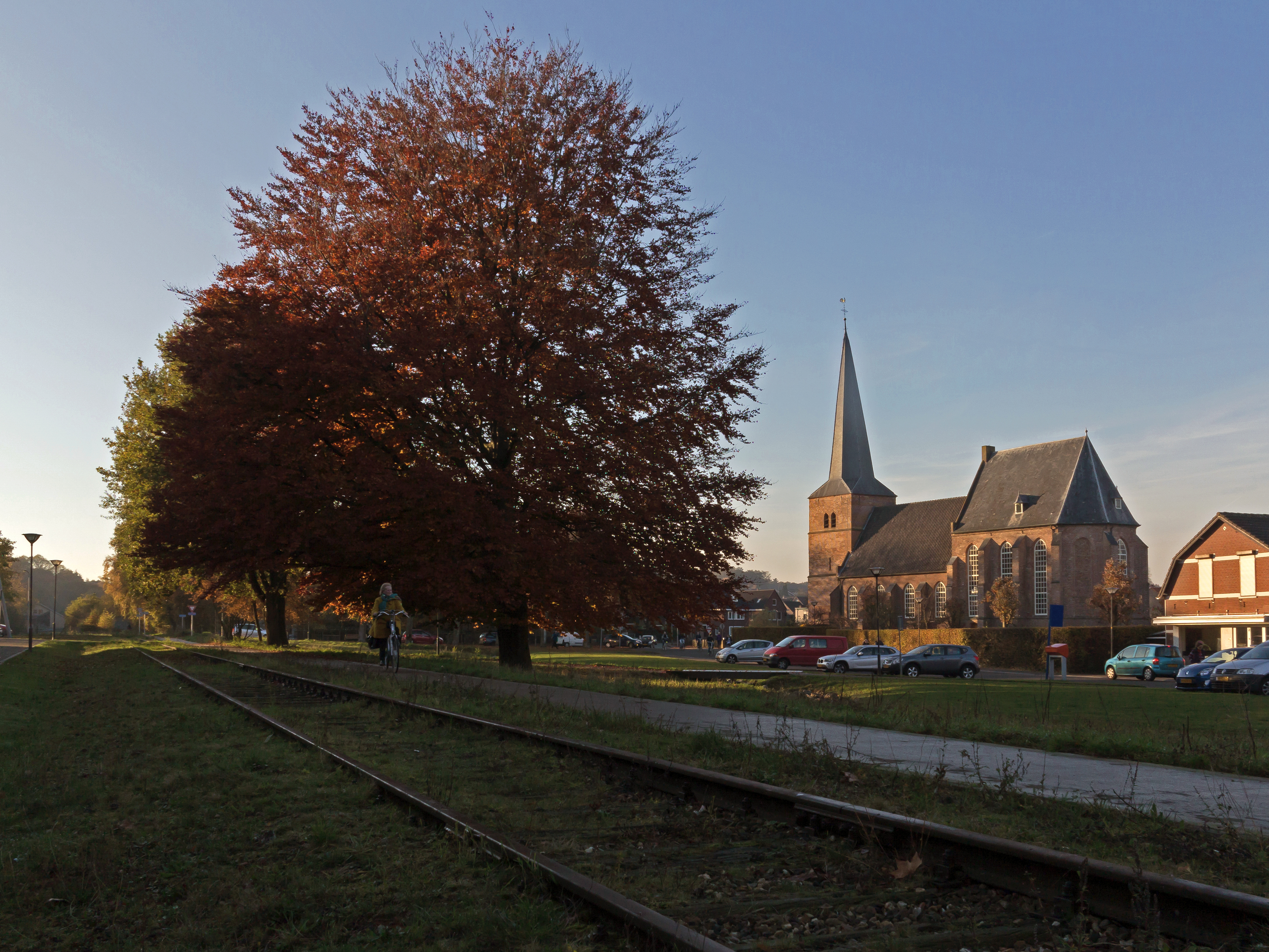 Groesbeek, reformed church in the street